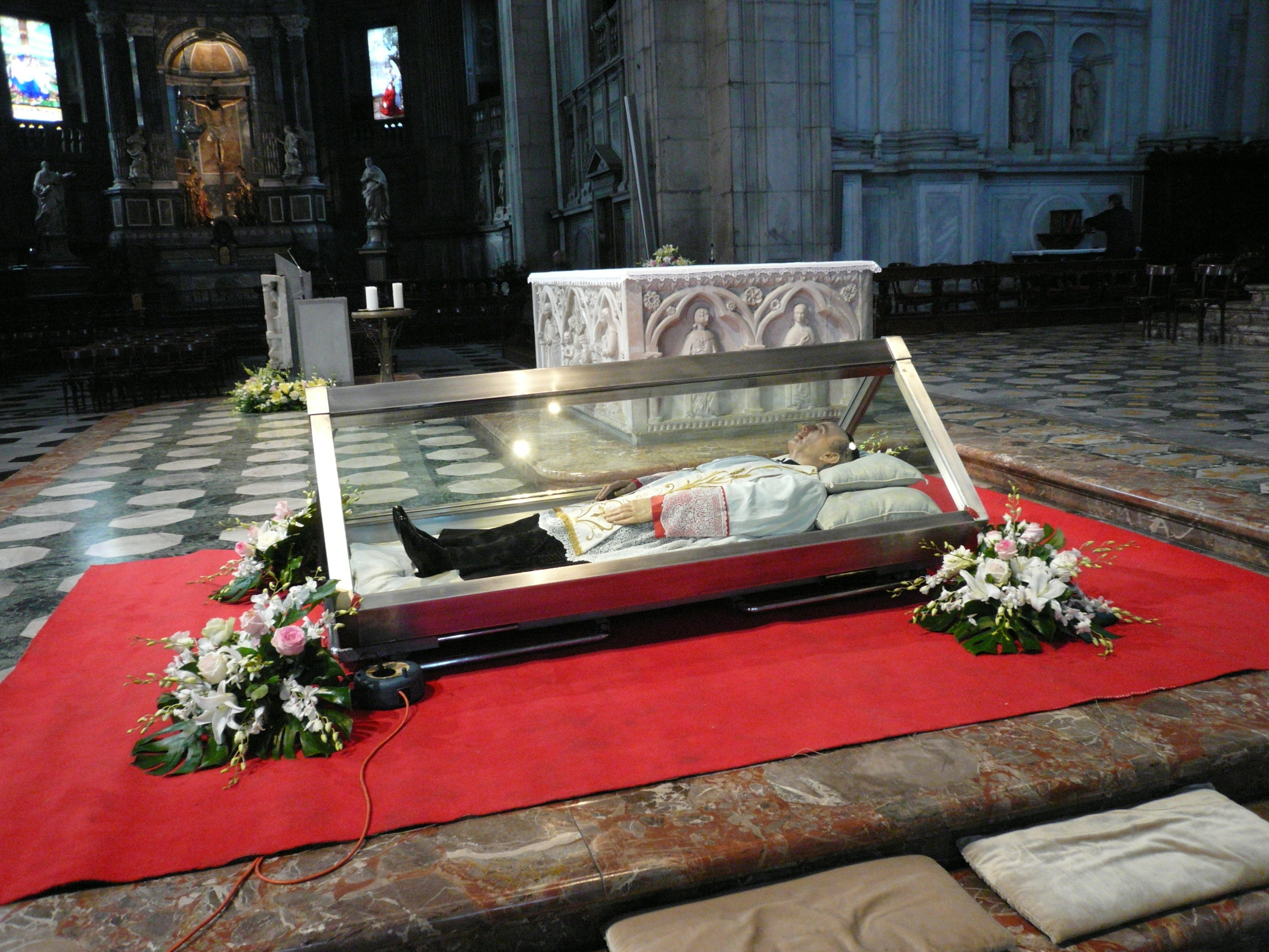 Luigi Ganella, Catholic saint, in the cathedral of Como